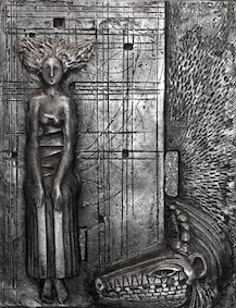 Aluminum book sculpture that contains the book Vilallonga - Cloister of Dreams, 1993 Photograph by Katherine Slusher